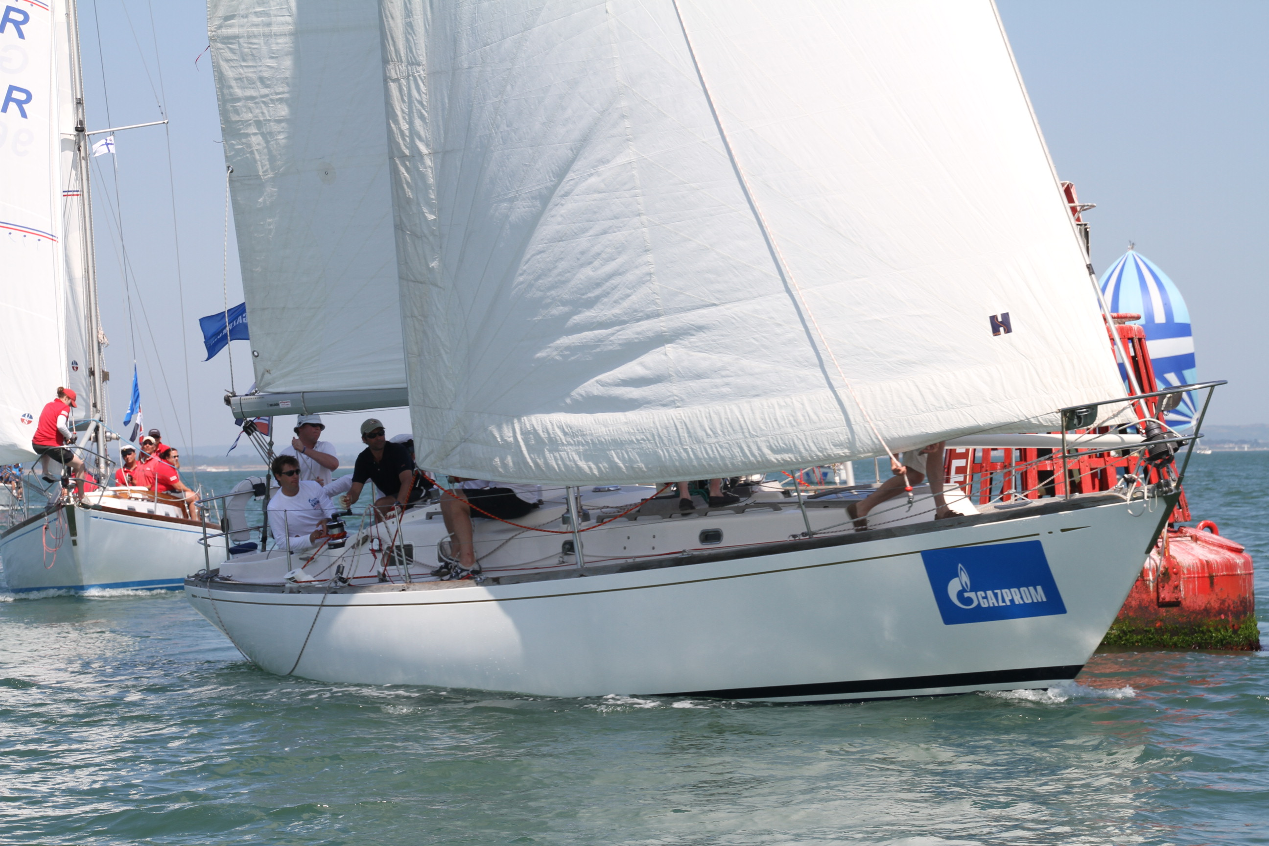 Swan40 GBR975R Aelana at the 2013 Swan Europeans in Cowes (GBR) held by the Royal Yacht Squadron